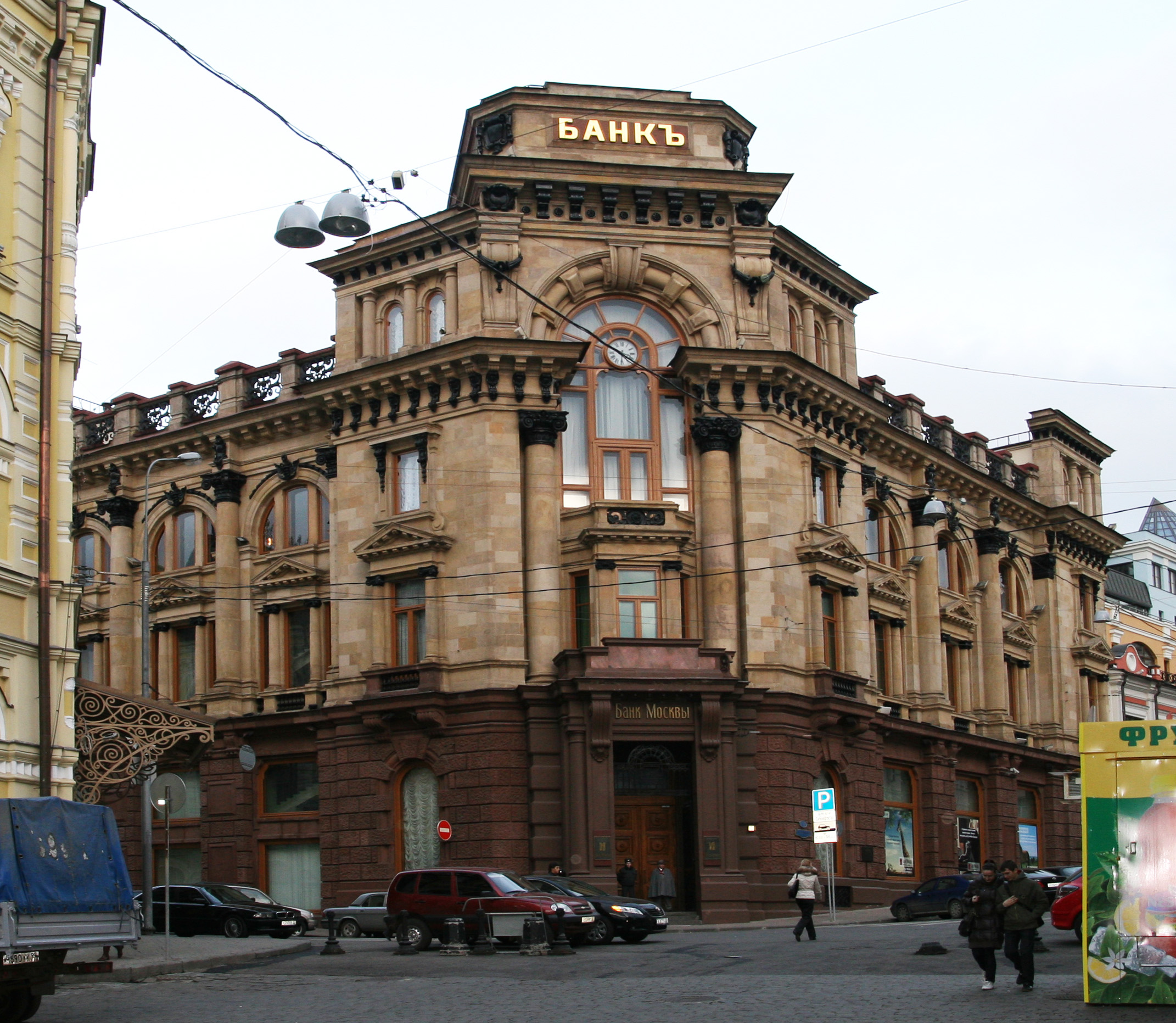 Moscow, Kuznetsky Most Street 15-8